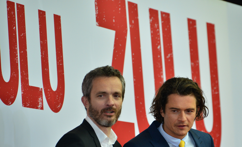 Orlando Bloom - Zulu Film Premiere - CinemaxX Hamburg. More Photos At